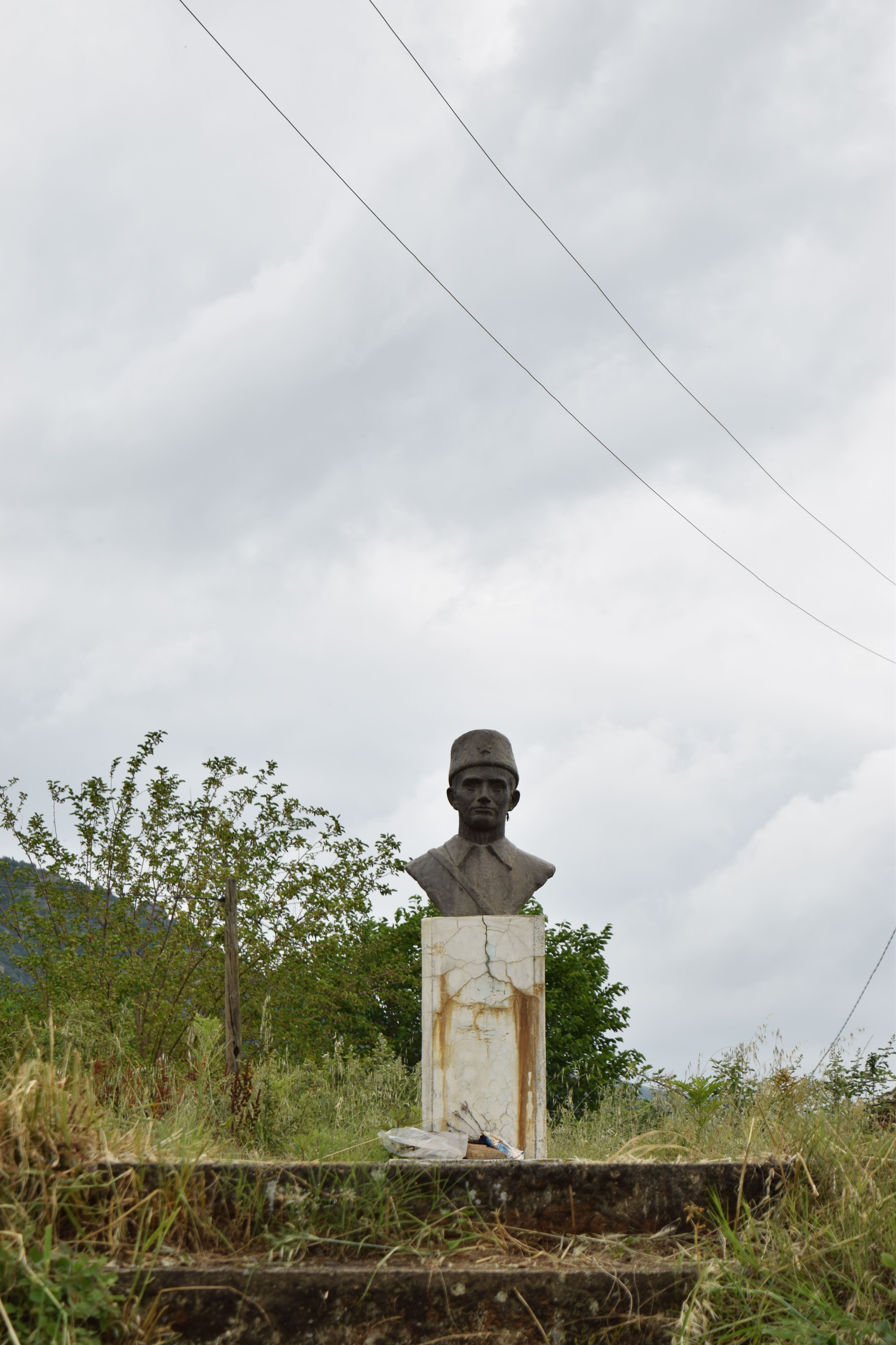 Monument of the Trajče Petkovski in the village Bistrica